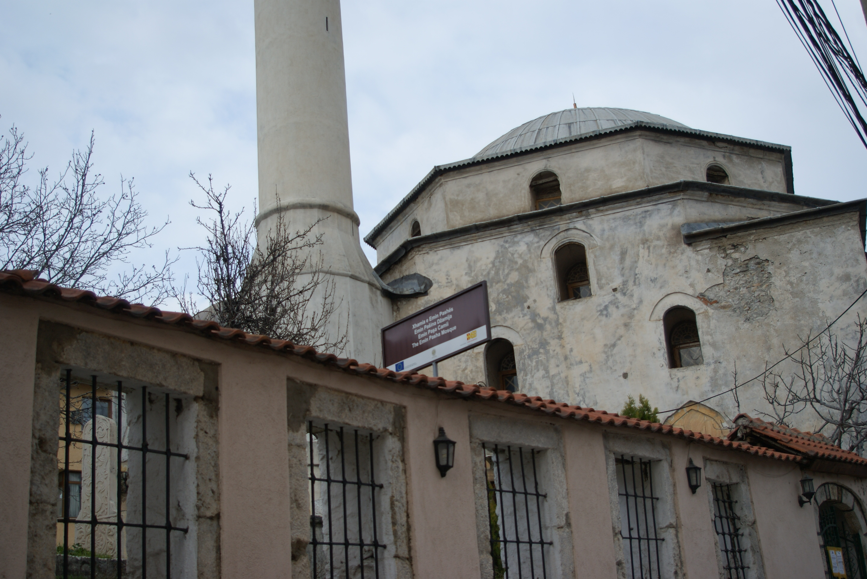 Xhamia e Emin Pashes